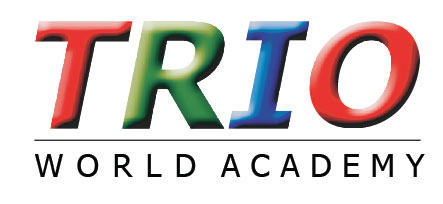 This is the logo of Trio World Academy